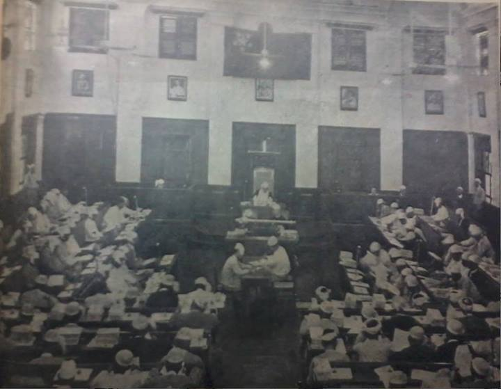 Chamber of Deputies(Pyithu Hluttaw) in 1950s, Burma